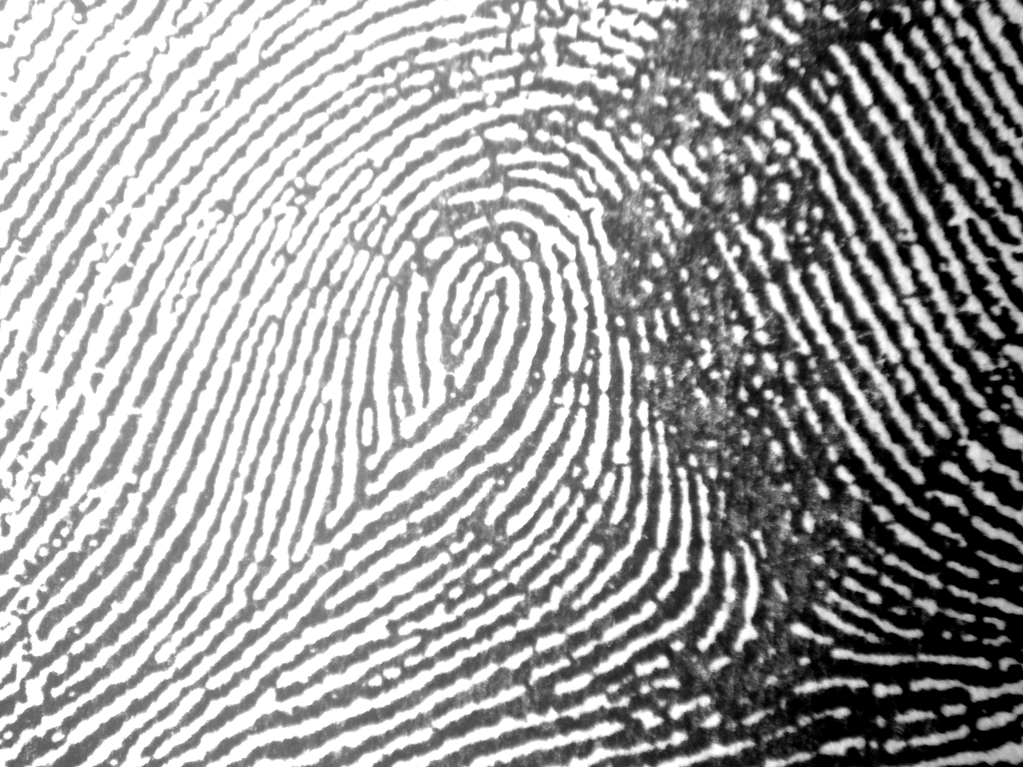 Central Pocket Loop Whorl